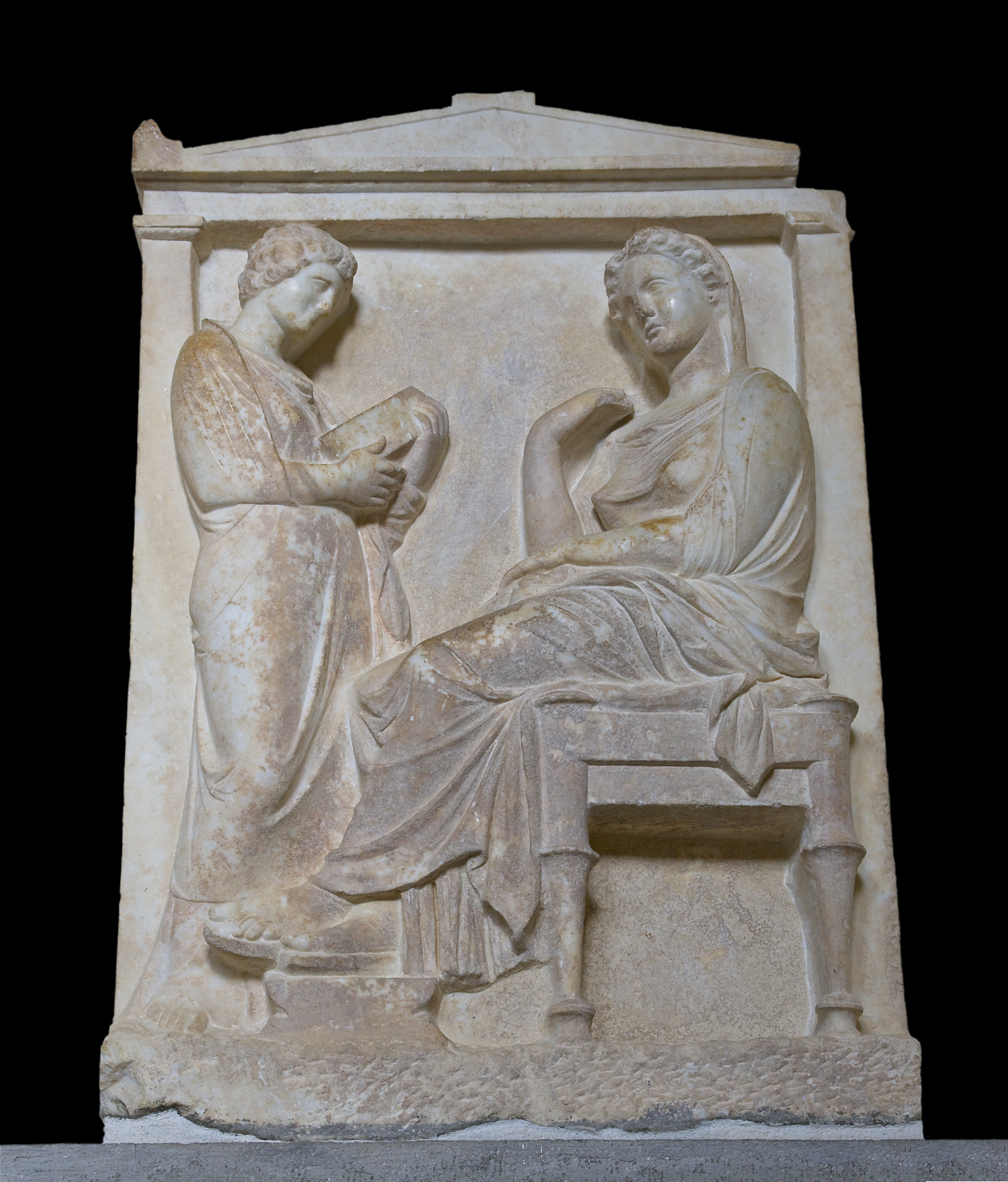 Grave stele of Kalliarista. Found in Rhodes at Kizil Tepe (present day Anatipsi), in the western area of the ancient necropolis. The dead womean sits on a stool (diphros) and her maid servant stands opposite, holding the casket with her mistress's jewels. Inscribed on the epistyle, below of the pediment is the epigram: If there is a highest praise in the world beffiting a woman, with this died Kalliarista, daughter of Phileratos, for wisdom and virtue. For this reason her husband Damocles set up this stele as a memorial of love; and may a benevolent spirit follow him for the rest of his life. Marble. Work of Attic inspiration, dated shortly before the mid-4th century BCE.